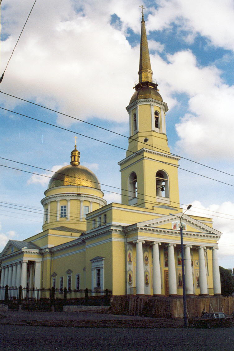 Aleksandr Nevsky church in Izhevsk